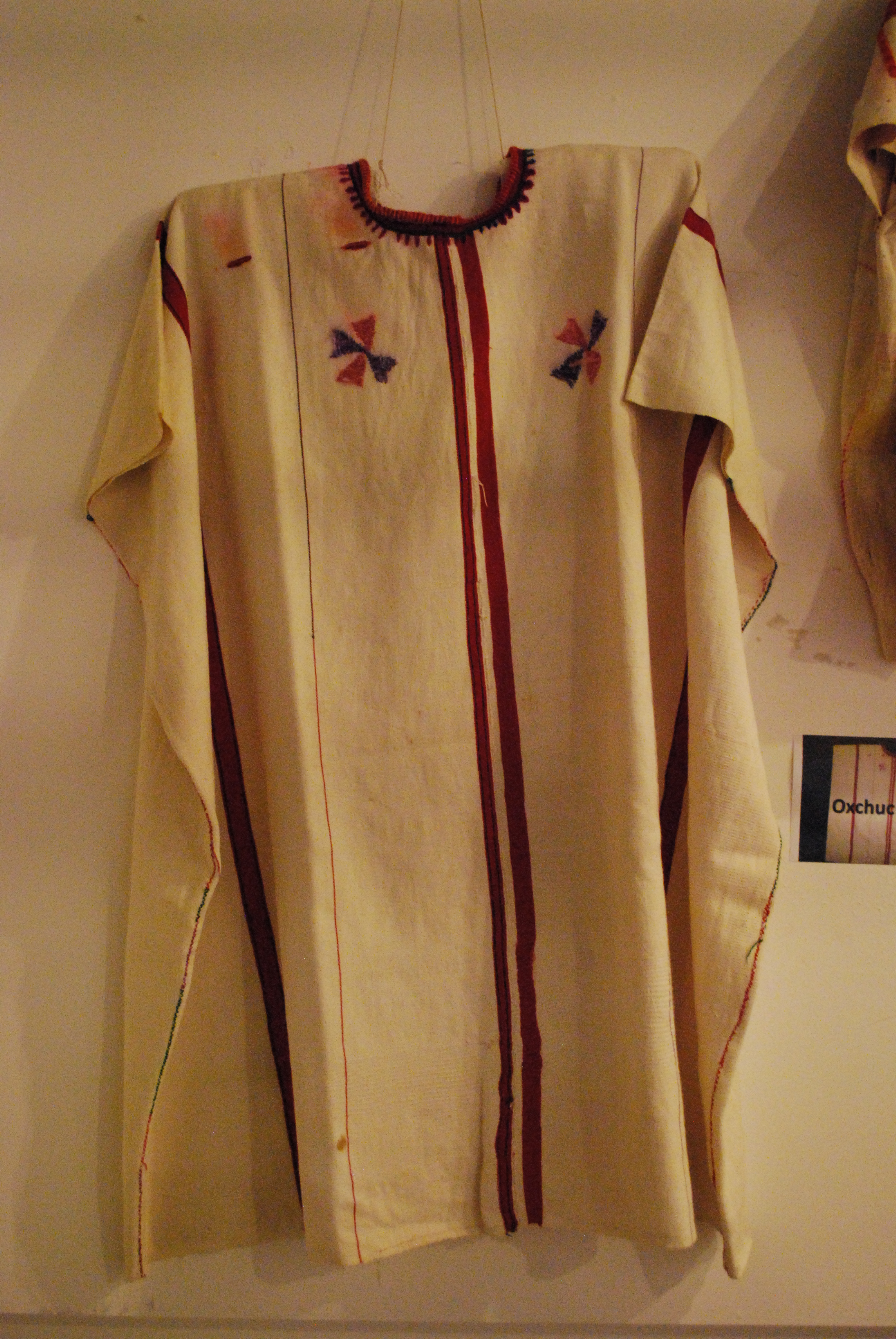 Indigenous tunic from Oxchuc, Chiapas from 1960. On display at Casa Na Bolom in San Cristobal de las Casas, Chiapas, Mexico